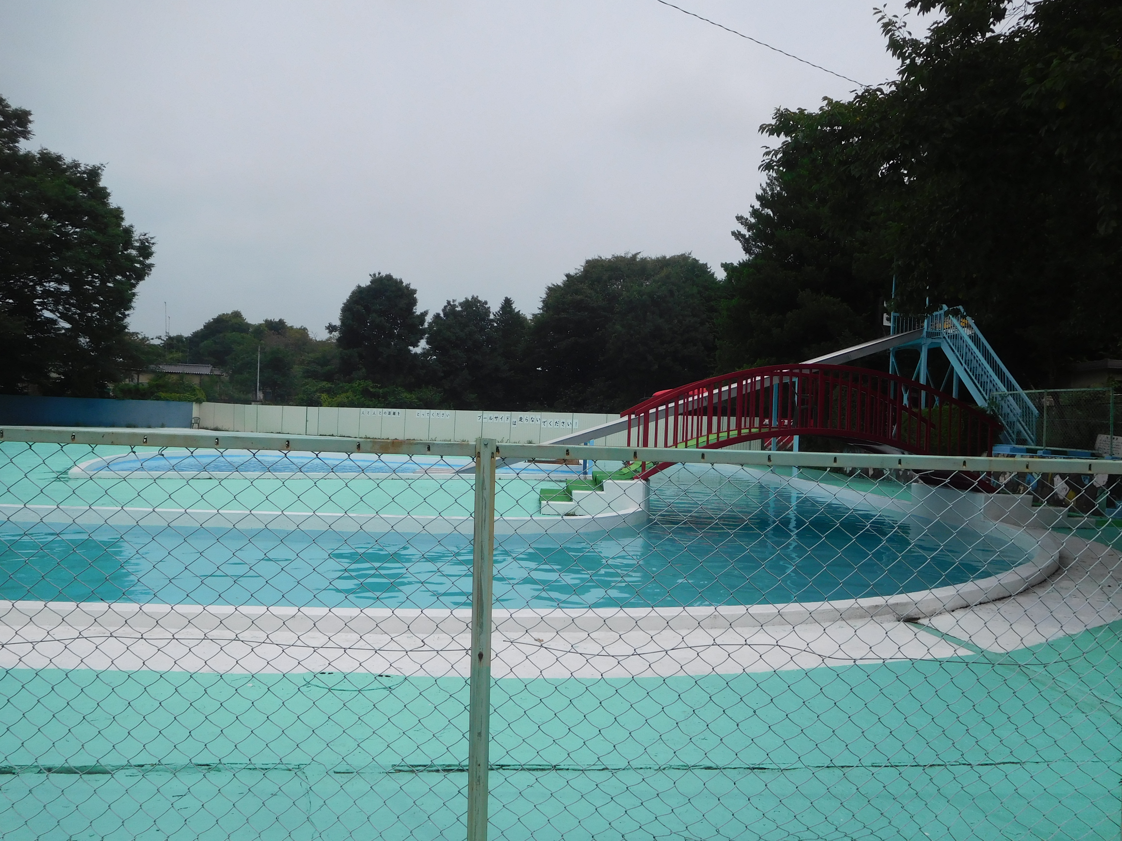 This is the swimming pool in Utsunomiya Zoo, city of Utsunomiya, Tochigi, Japan.